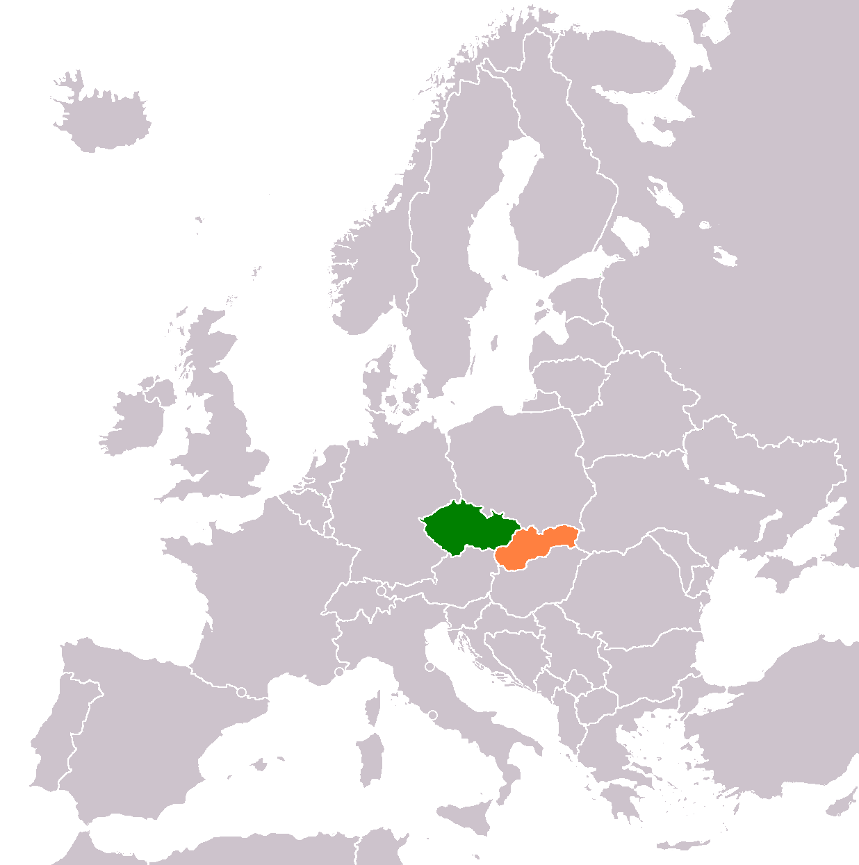 A locator map showing the Czech Republic and Slovakia.